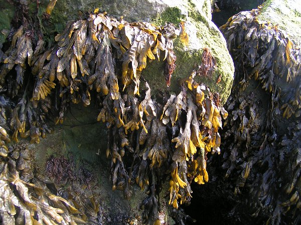 Seeweed covered rocks. (Fucus, Porphyra)